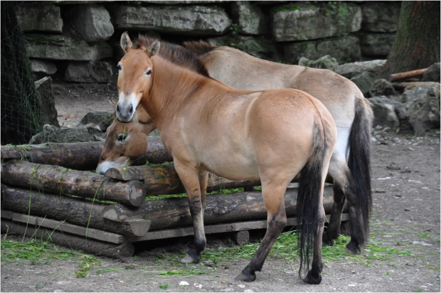 Przewalski horse with clearly visible shoulder and leg stripes at the Zoo Salzburg.